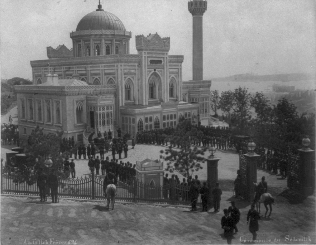 The Selamlik (Sultan's procession to the mosque) at the Hamidiye Camii (mosque) on Friday